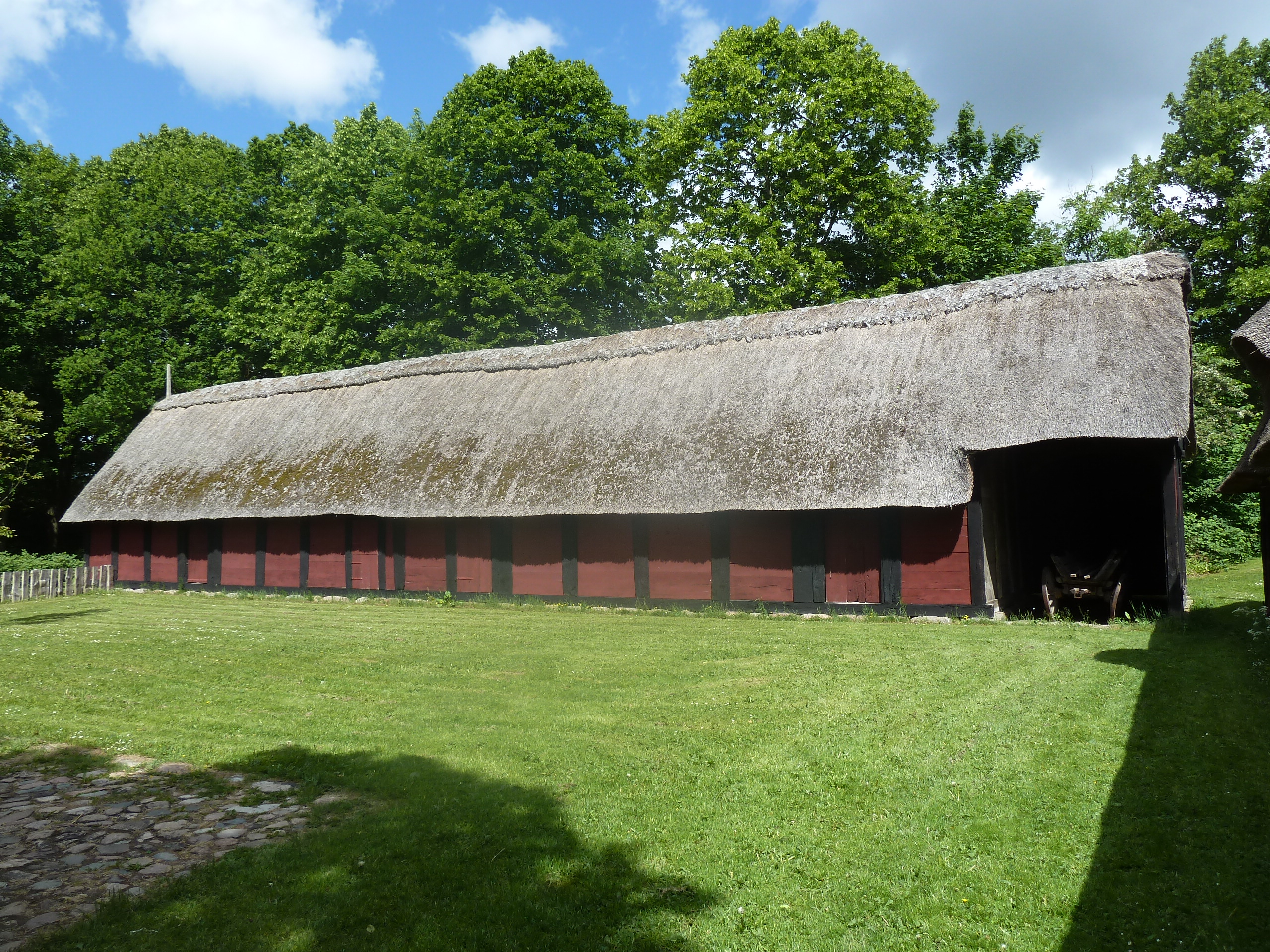 Farm from Barsø, Sønderjylland, now on Frilandsmuseet (the open air museum) north of Copenhagen.